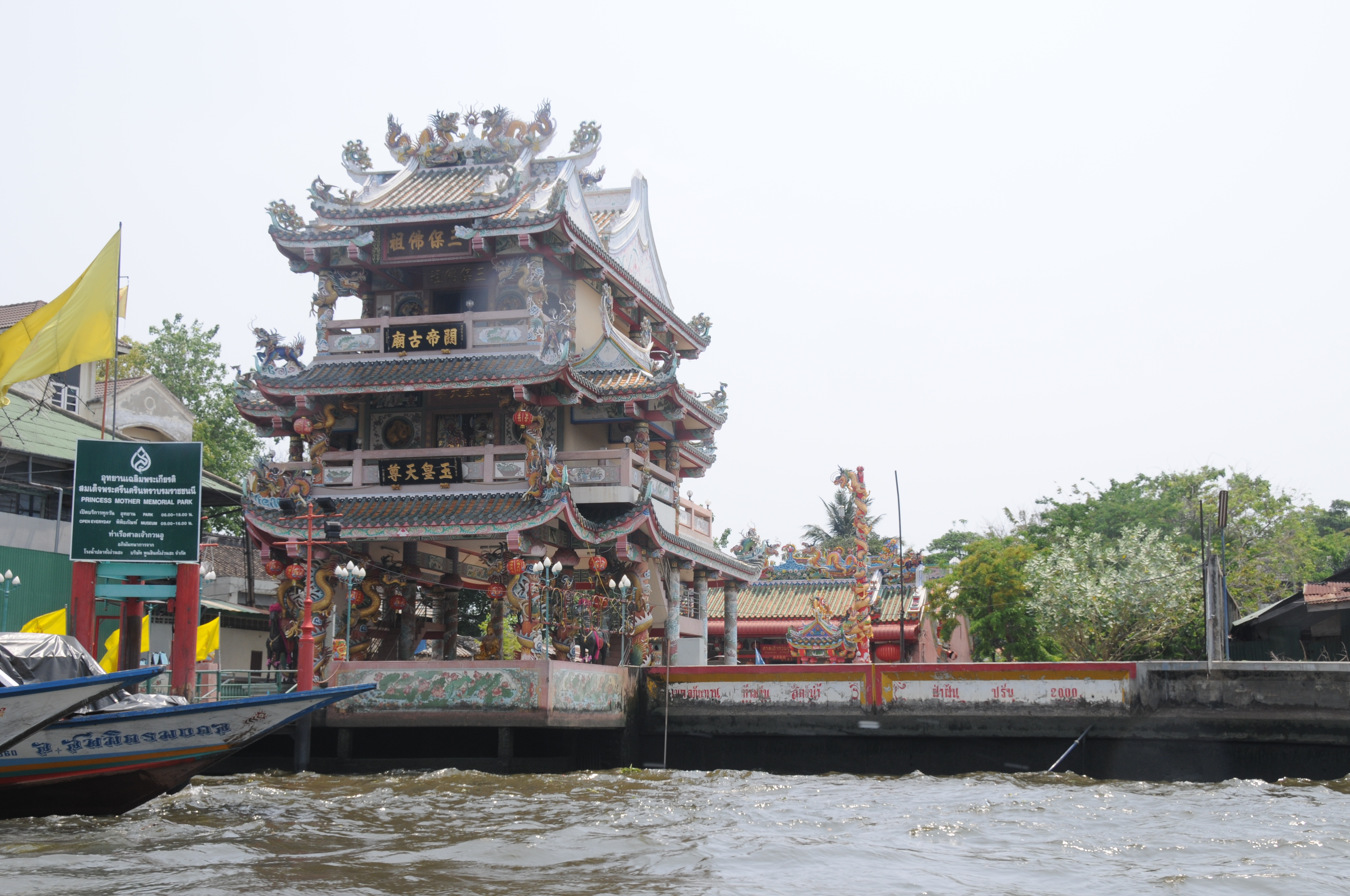 Chao Phra river - Princess Mother Park - Bangkok Thailand